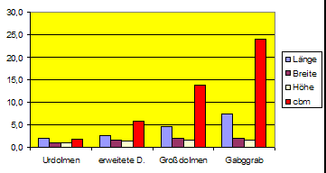 Dimensions of the different types of dolmen in the Nordic megalith area